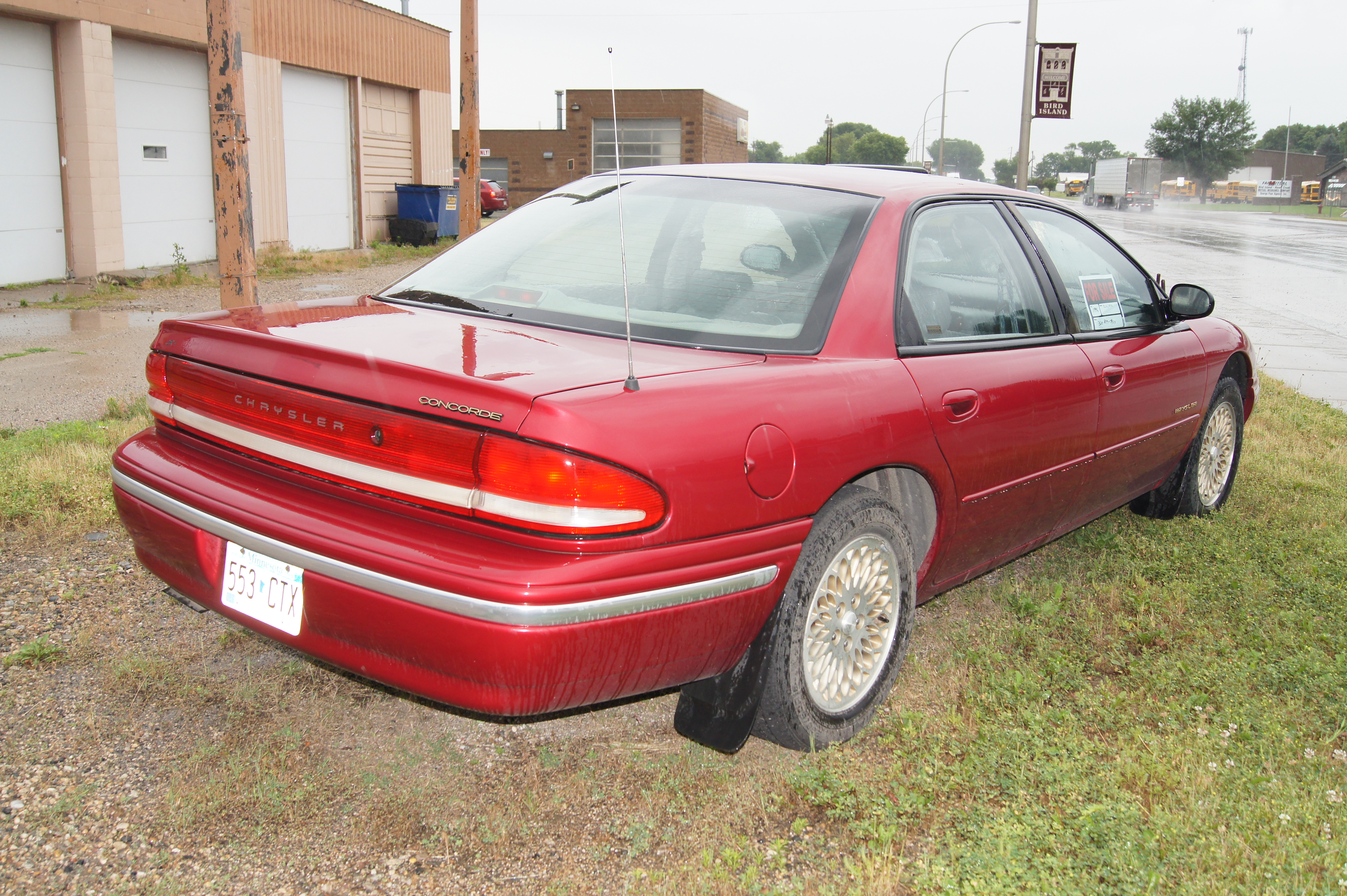 I really liked the LH cars when they came out. Chrysler: Concorde, New Yorker, LHS, 300M Dodge Intrepid Eagle Vision They were eclipsed though when something I never thought I would see again reappeared: Chrysler Corporation cars with Rear Wheel Drive available with V8 engines. The Chrysler 300-C & Dodge Magnum and Later the Charger supplanted my desire for the LH cars. I did end up with a 2005 Dodge Magnum, but not until 2009.